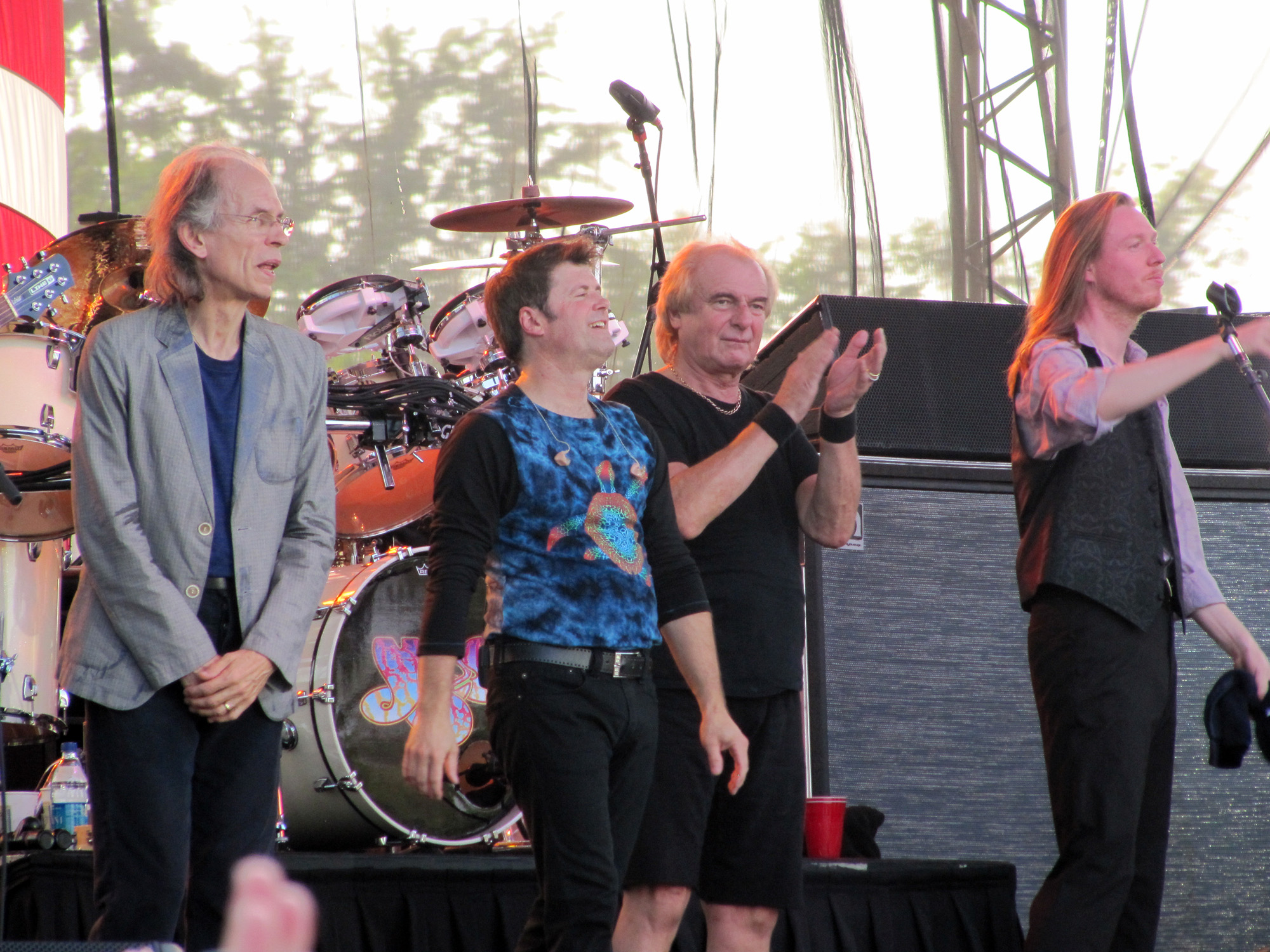 Yes concert in Cincinnati, Ohio